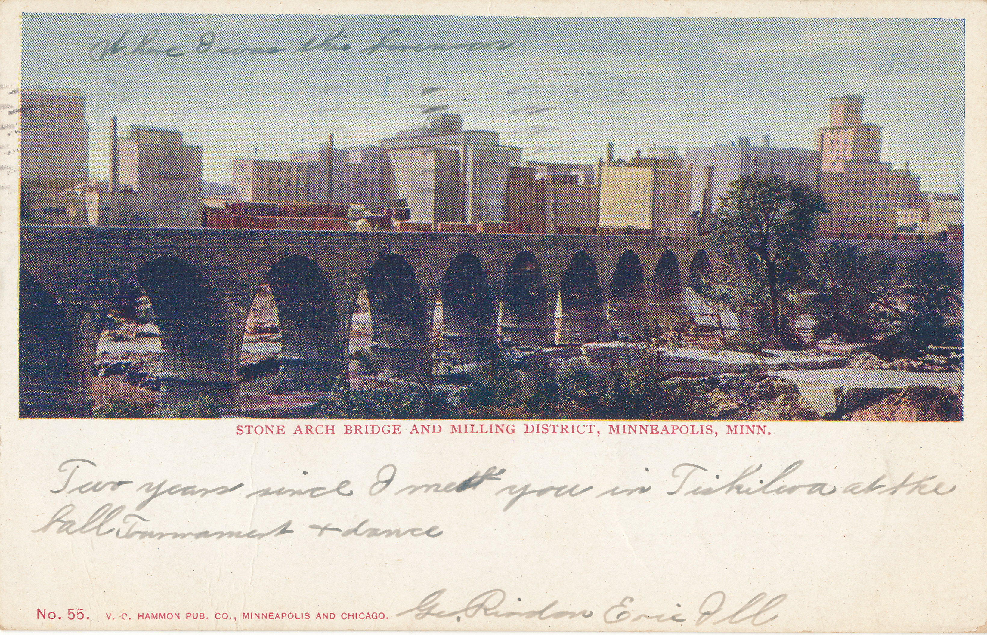 post card, sky line